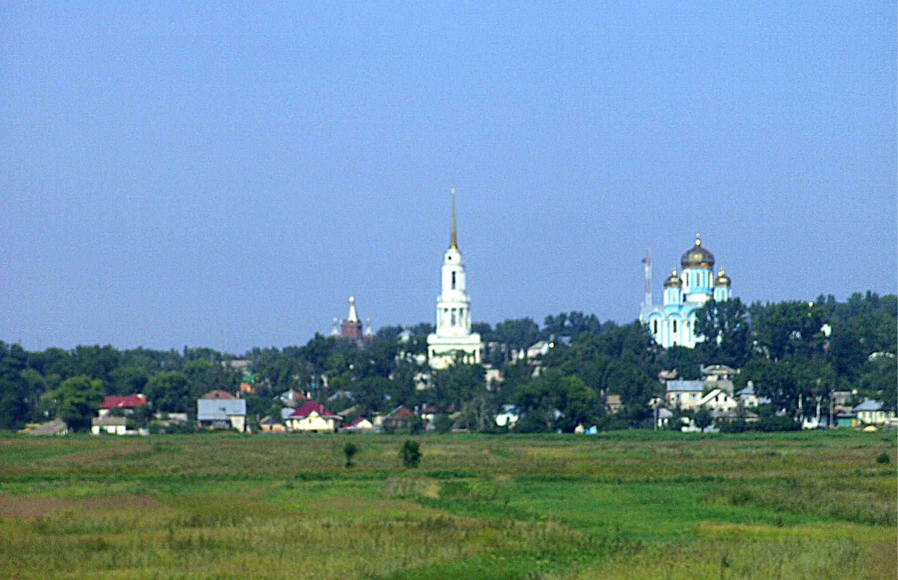 City of Zadonsk seen from the Russian M4-highway